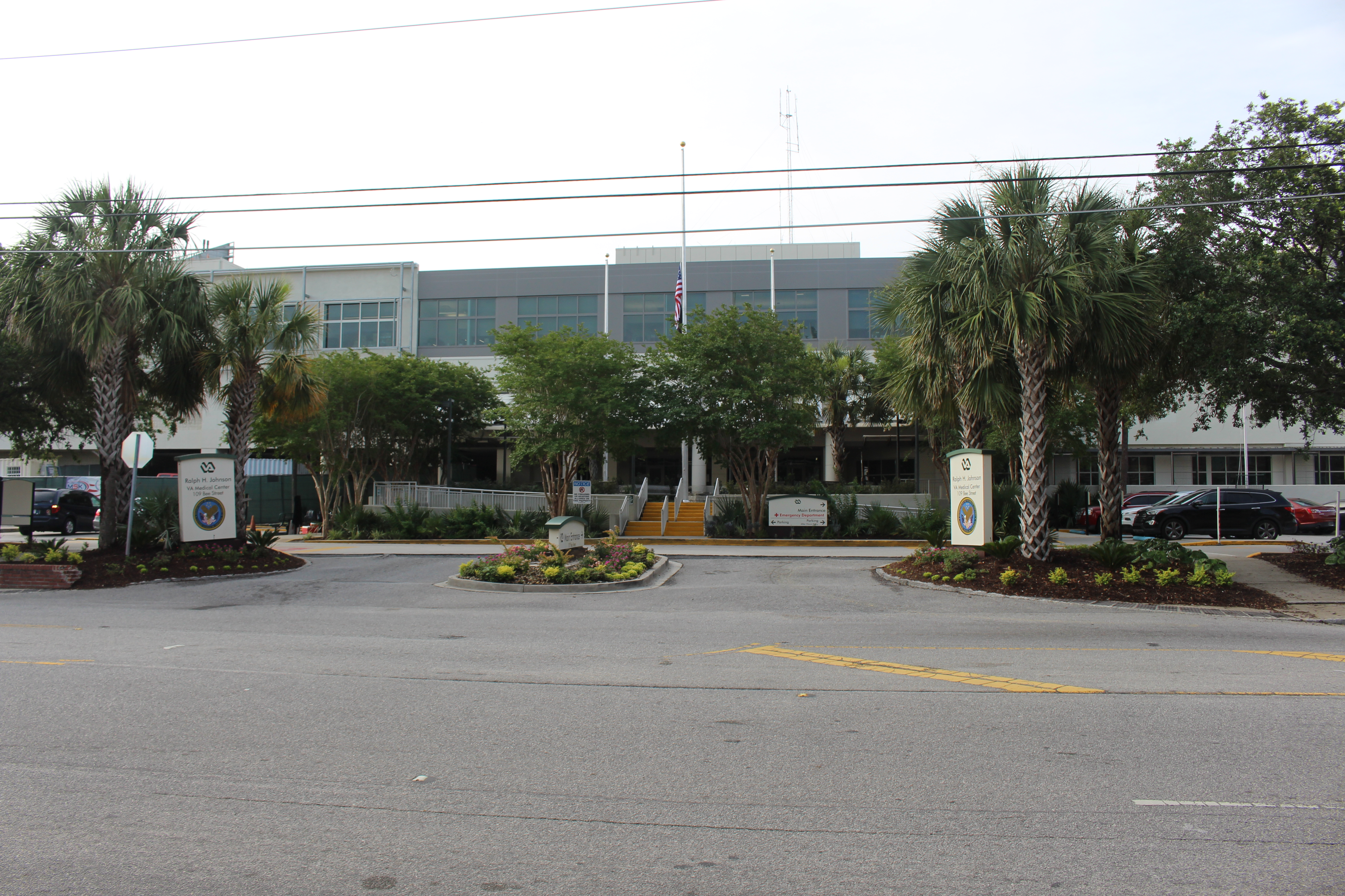 Ralph H. Johnson VA Medical Center, Charleston, Charleston County, South Carolina